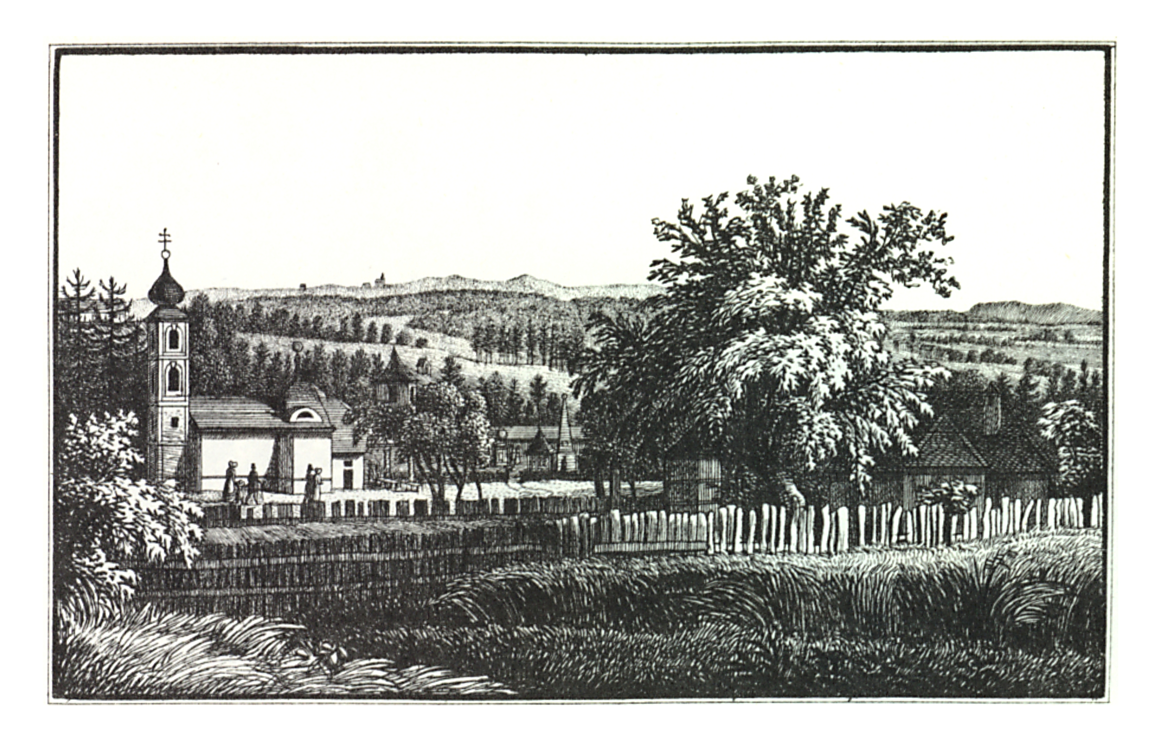 J. F. Kaiser - lithographirte Ansichten der Steyermärkischen Städte, Märkte und Schlösser, Graz 1824-1833 Joseph Franz Kaiser (1786–1859) Alternative names J. F. KaiserDescriptionAustrian printer and editorDate of birth/death 11 March 1786 19 September 1859Location of birth/death Graz (Styria) GrazAuthority control : Q1499963 VIAF: 30629353 ISNI: 0000 0000 3083 0153 LCCN: n87141671 GND: 129880159 NLP: A24960305 WorldCat creator QS:P170,Q1499963 . Scanprojekt Community Projektbudget 2012 This scan or this PDF-file was created within the GLAM-project Bookscanning, supported by Wikimedia Germany and Wikimedia Austria as a part of the community-project to capture books, documents and pictures which are not eligible to copyright or for which the copyright has expired. This document describes or depicts an object which is located in Austria today. Send requests for uncompressed scans to Hubertl. This work is in the public domain in its country of origin and other countries and areas where the copyright term is the author's life plus 100 years or less. You must also include a United States public domain tag to indicate why this work is in the public domain in the United States. This file has been identified as being free of known restrictions under copyright law, including all related and neighboring rights.